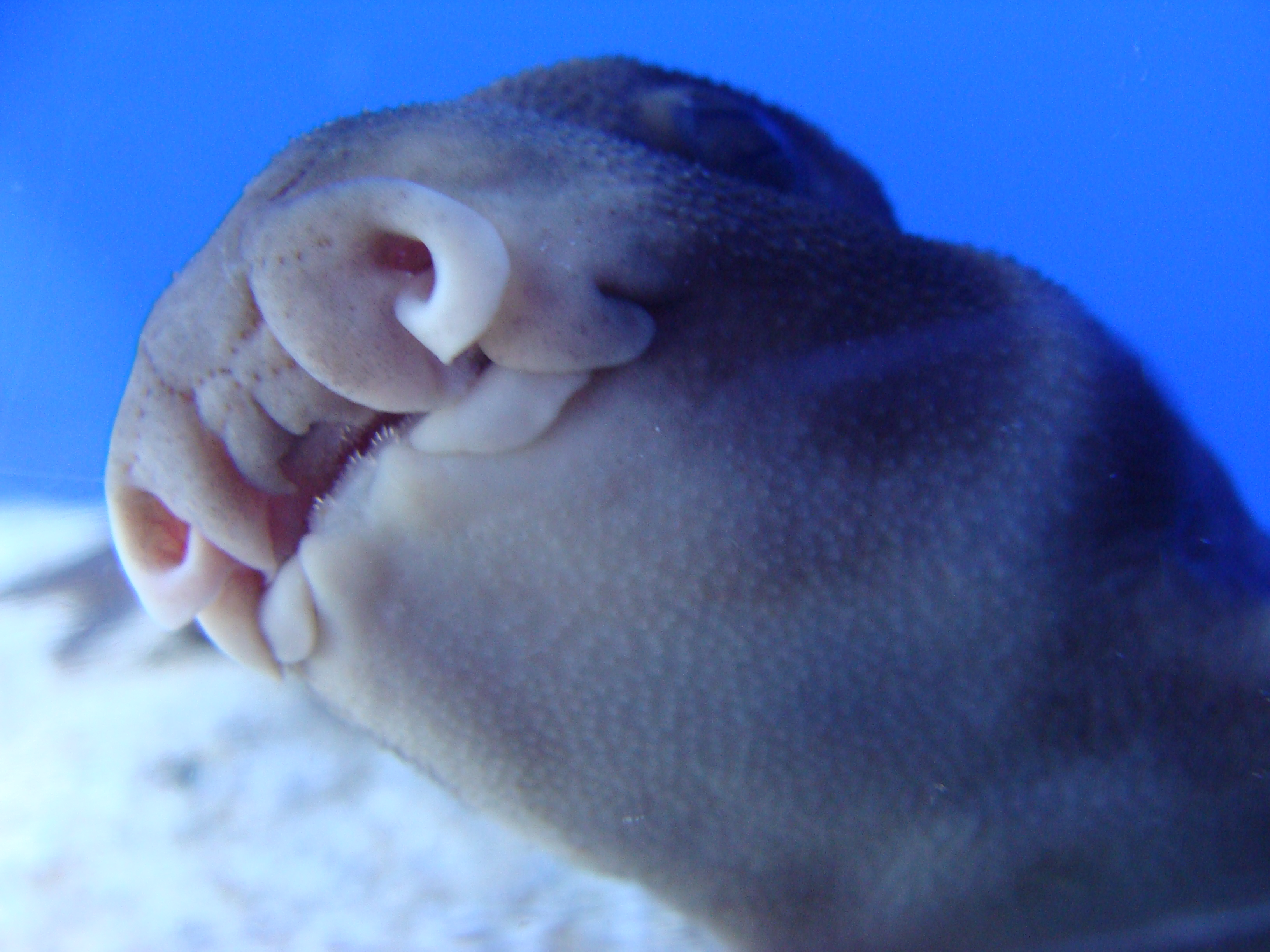 Heterodontus japonicus (Japanese bullhead shark) in Sala Humboldt of Aquarium Finisterrae (House of the Fishes), in Corunna, Galicia, Spain.